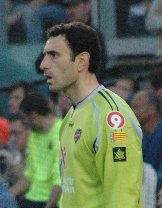 José Francisco Molina, Levante Unión Deportiva's goalkeeper, during the match FC Barcelona-Levante UD.